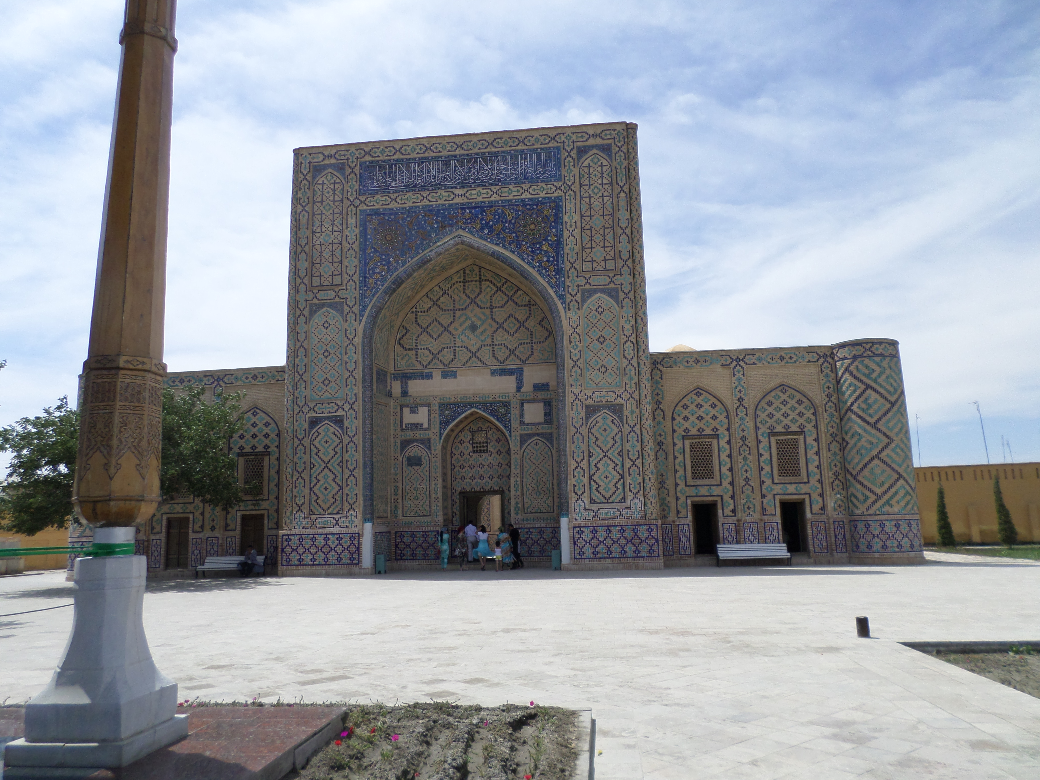 Ulugh-Beg madrasah in Gijduvan